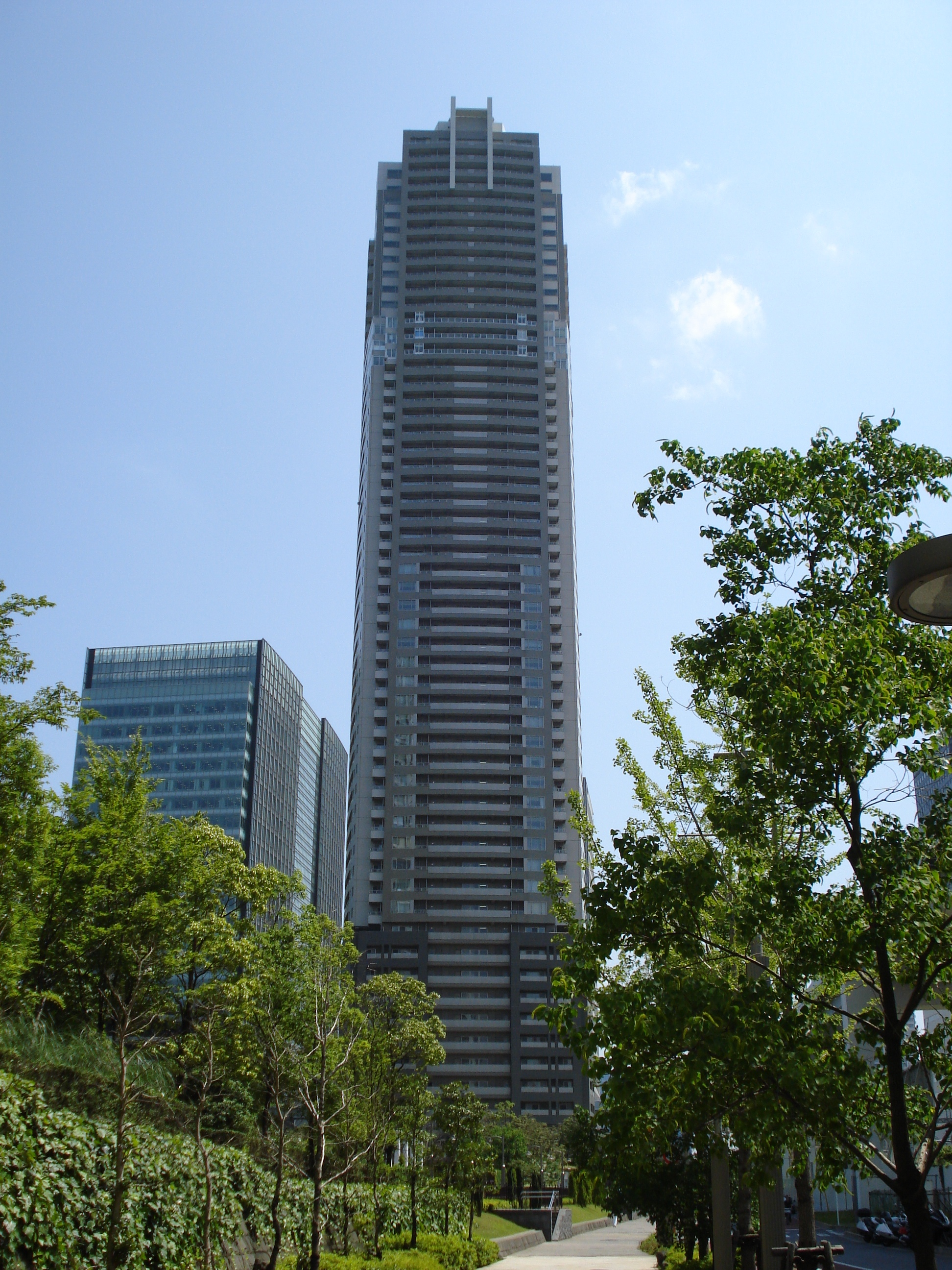 Building